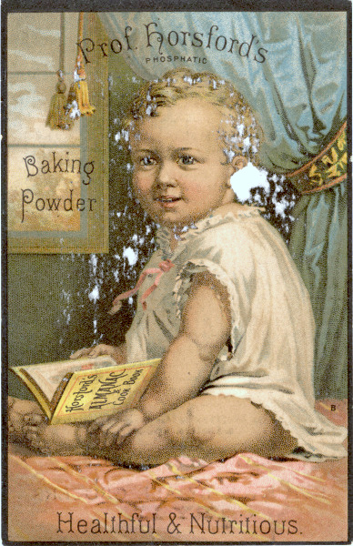 Persistent URL: Subject (TGM): Children; Infants; Baking powder; Flour & meal industry; Food industry; Testimonials; Keywords: Prof. Horsford's Phosphatic Baking Powder Count Rumford Baron Liebig Dr. M.H. Henry